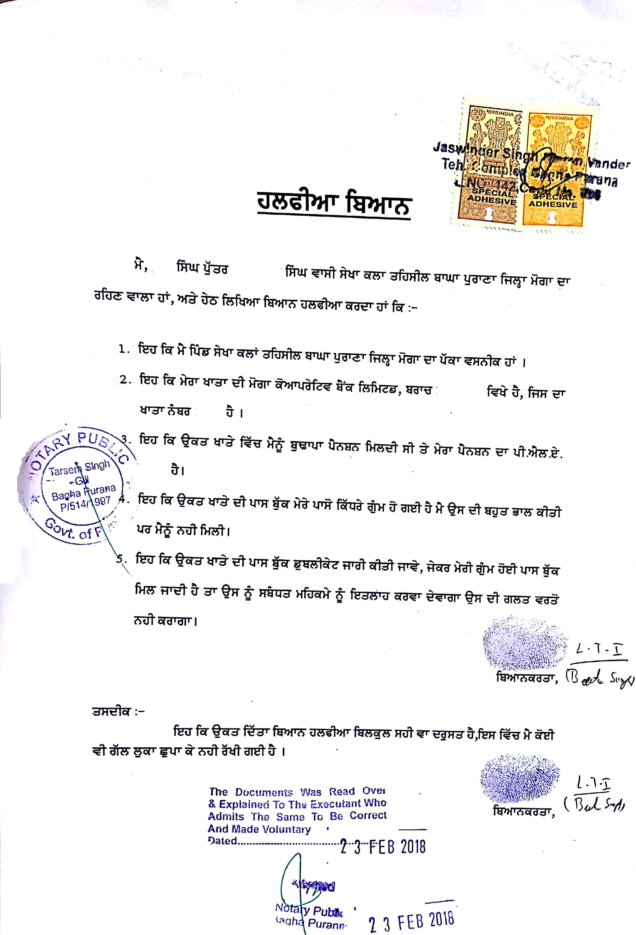 (Punjabi) Affidavit Tested by Notry Public